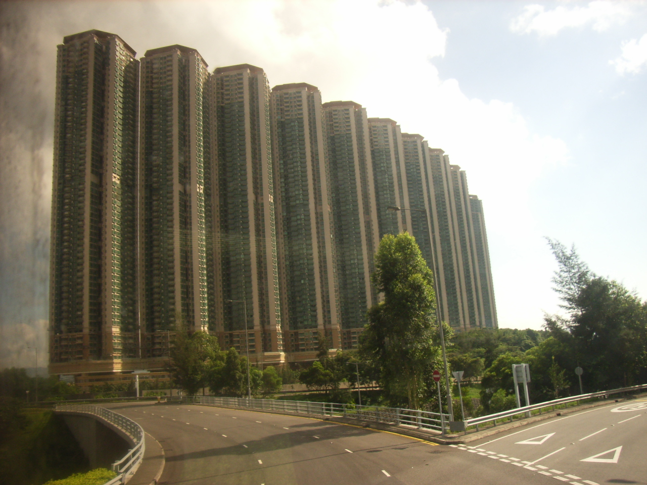 HK Caribbean Coast Towers 香港東涌映灣園 by Green fish